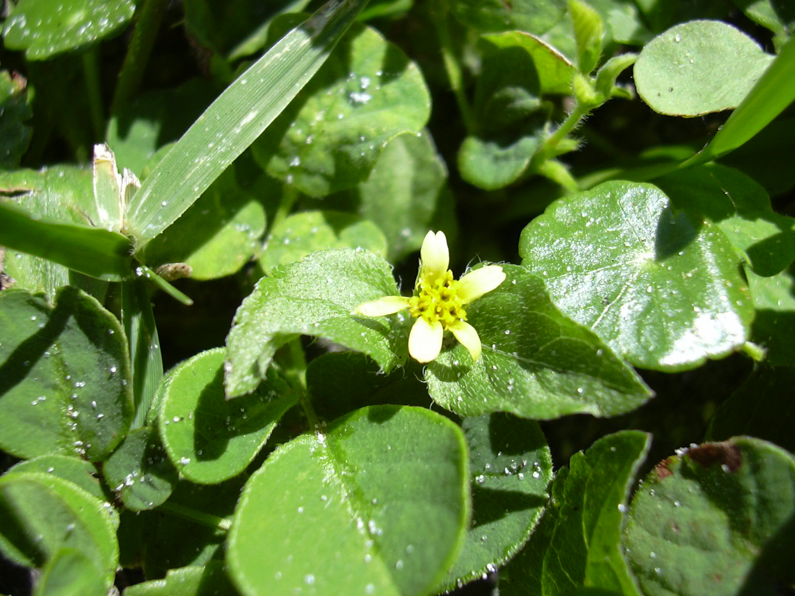 Calyptocarpus vialis (flower). Location: Florida, Siesta Key Beach